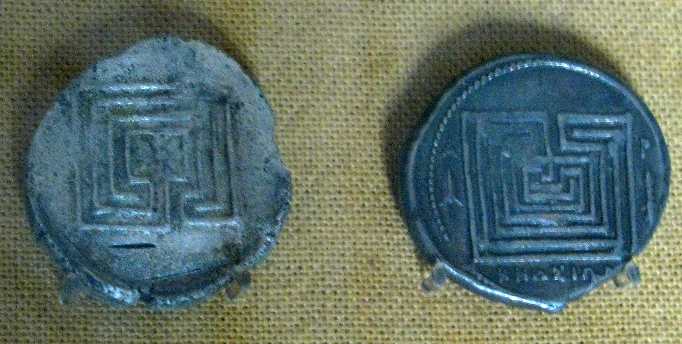 The schematic rendering of the Labyrinth was the first depiction of the structure on a coin. Silver stater, Knossos, 300-270 BC. Νumismatic Museum, Athens, Greece. --- Κνωσός (Λαβύρινθος). 300-270 Π.Χ. Νομισματικό Μουσείο, Αθήνα.